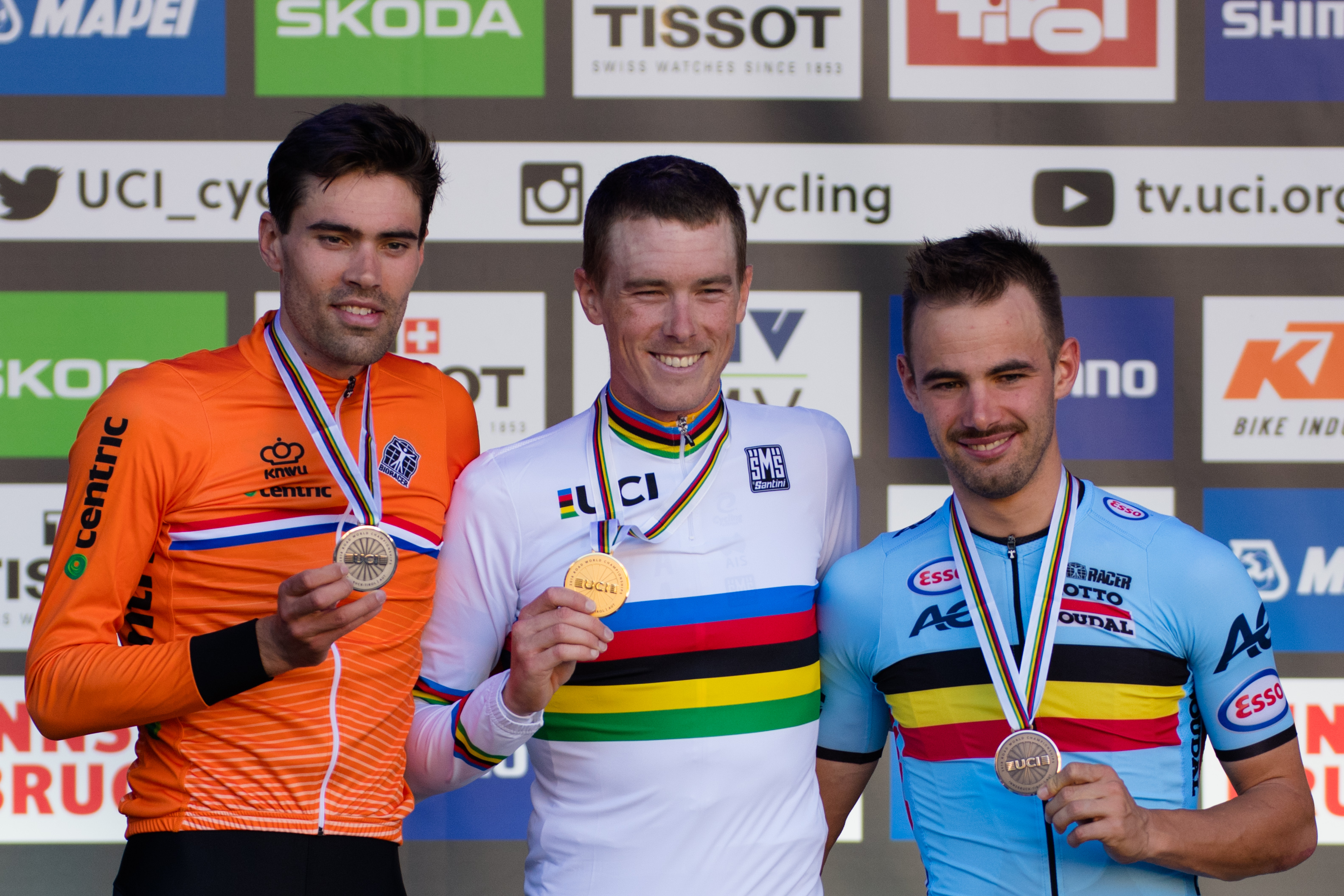 2018 UCI Road World Championships Innsbruck/Tirol Men's Individual Time Trial. Picture shows: Tom Dumoulin of the Netherlands, winner Rohan Dennis of Australia and Victor Campenaerts of Belgium.